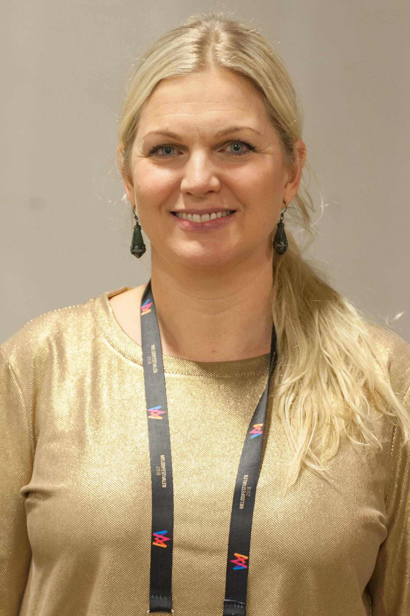 Melodifestivalen 2018 final i Stockholm